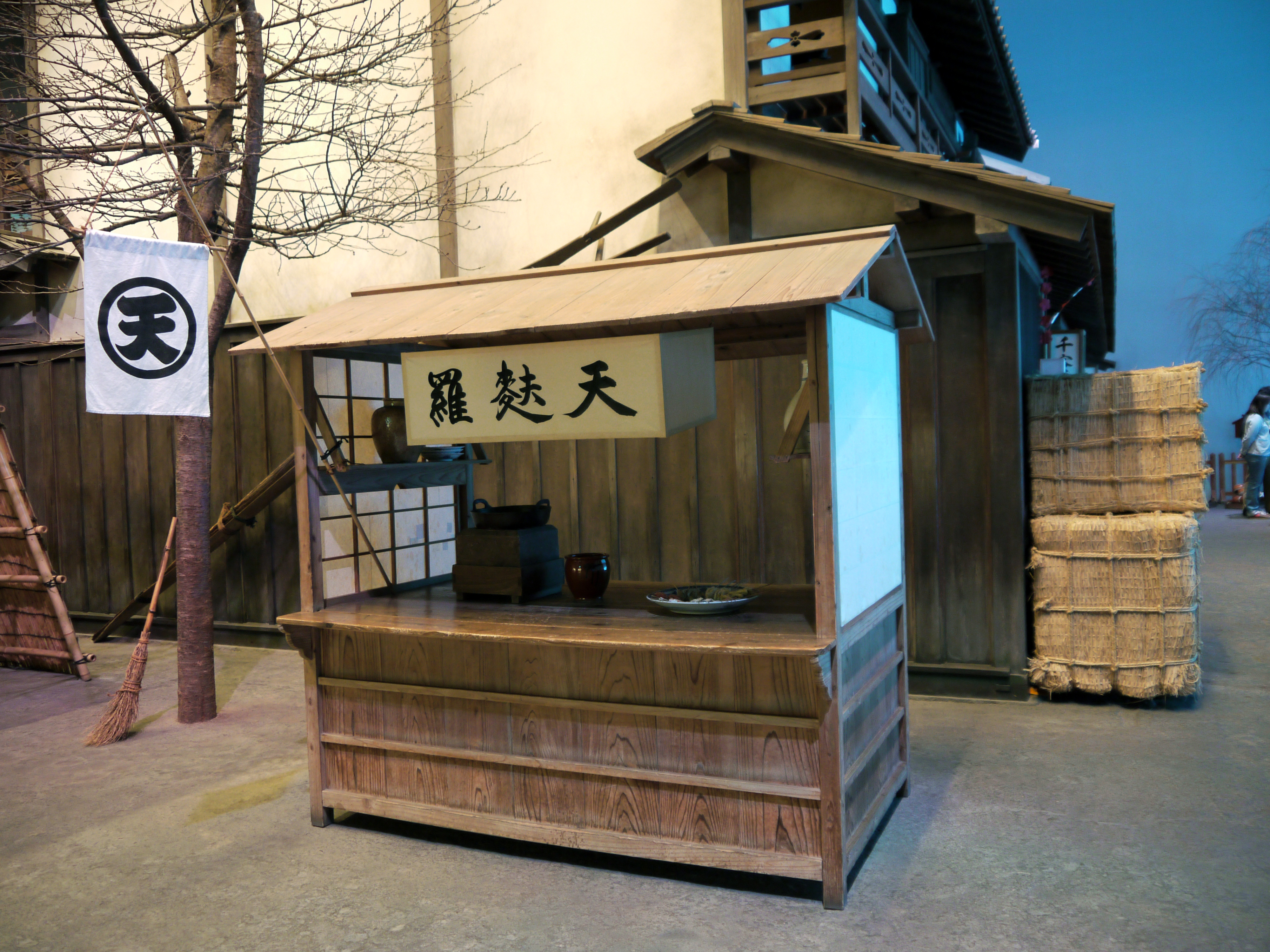 Japanese Edo Period Tempura Shop